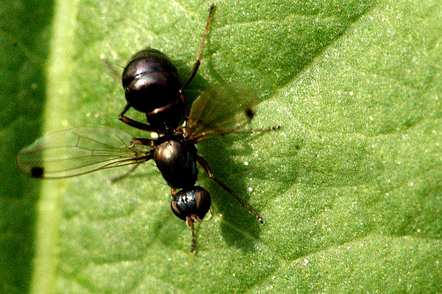 Picture taken in Commanster, Belgian High Ardennes . Species: female Sepsis violacea